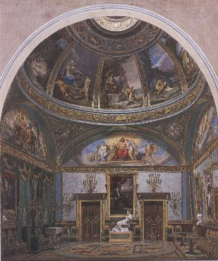 owned by Count Nicholas N. Demidoff (1773-1828)